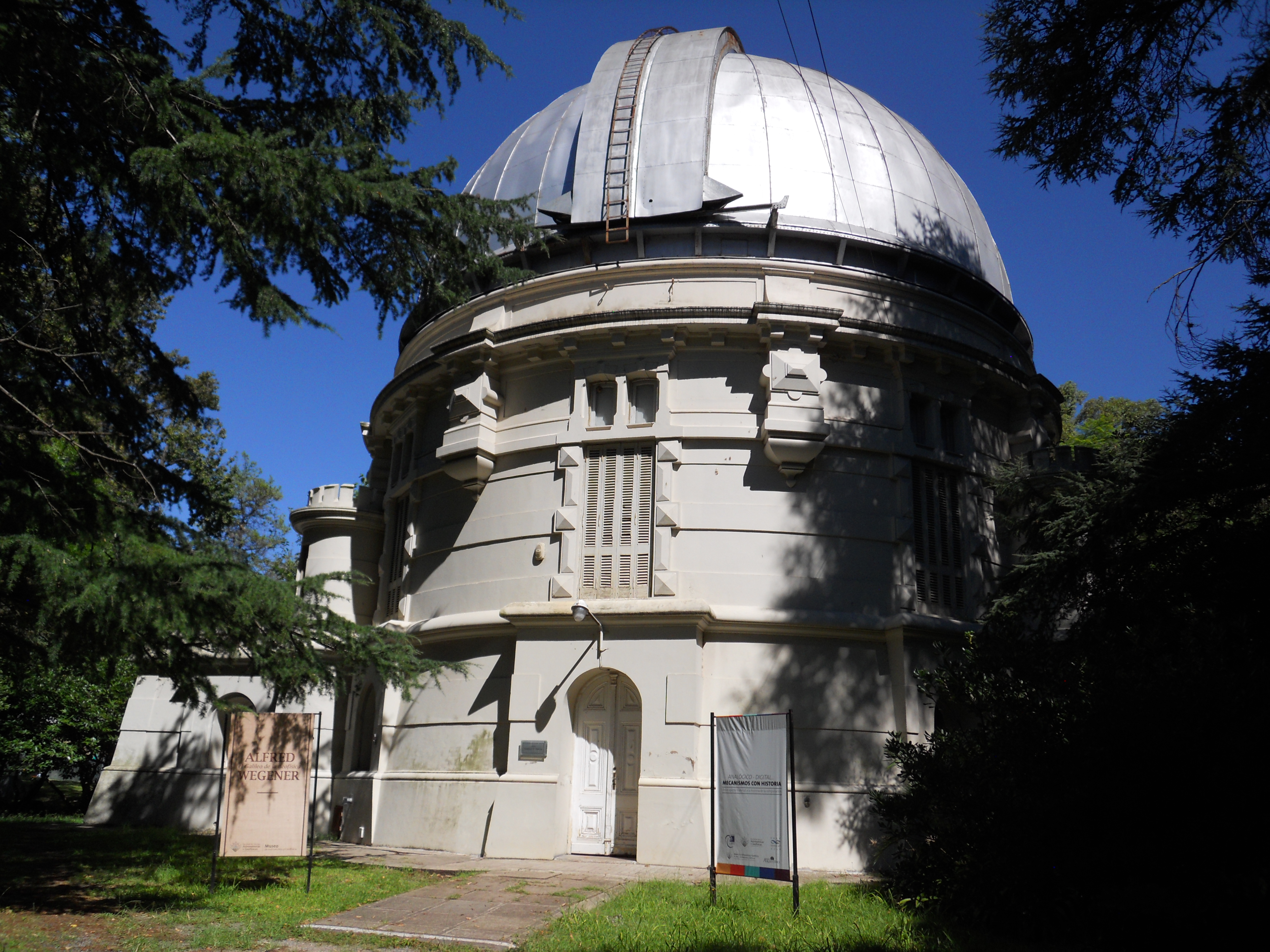 Astronomical observatory of the Museum of Astronomy and geophysics, National University of La Plata.